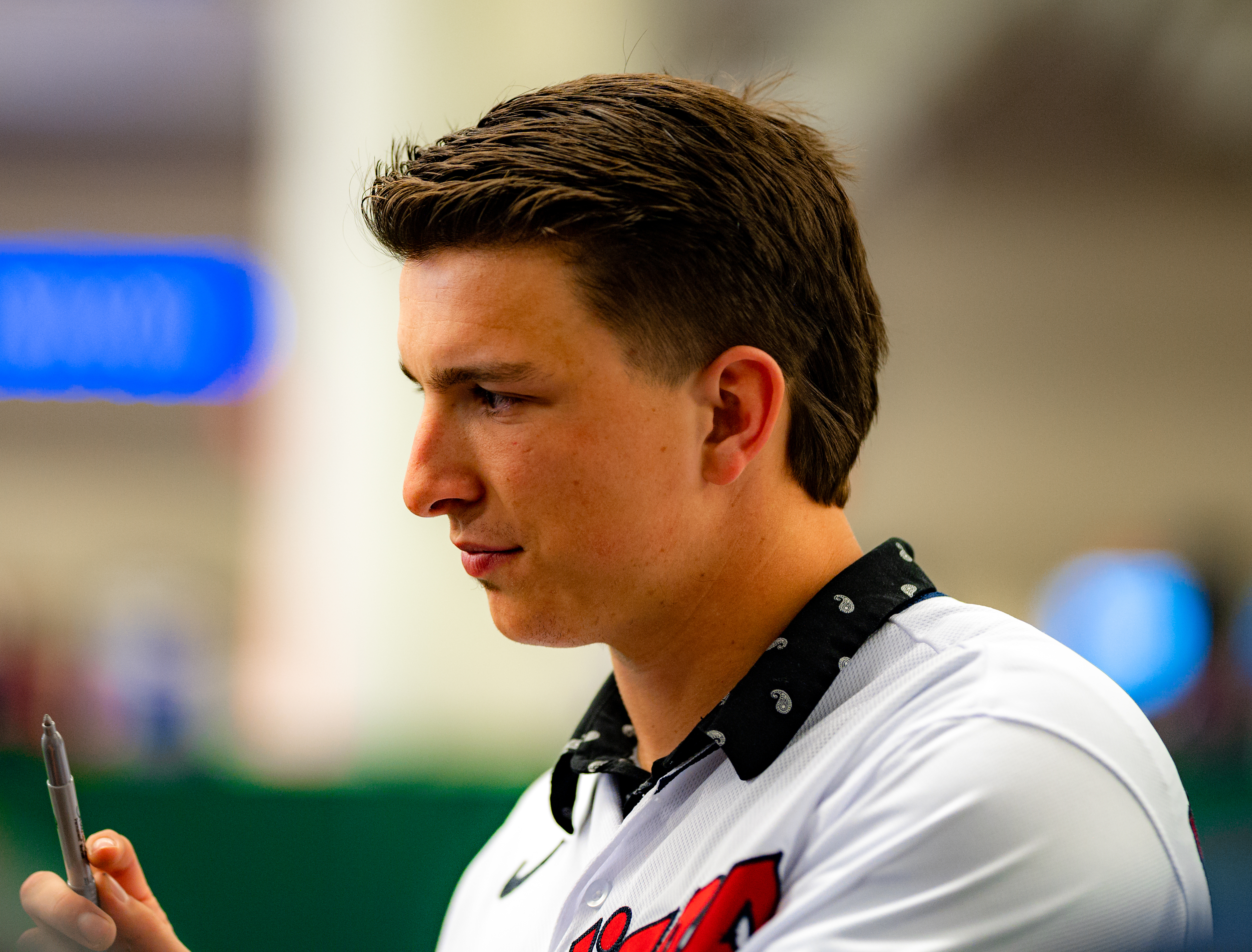 James Karinchak at Cleveland Indians Tribe Fest at Huntington Convention Center of Cleveland in February 2020.